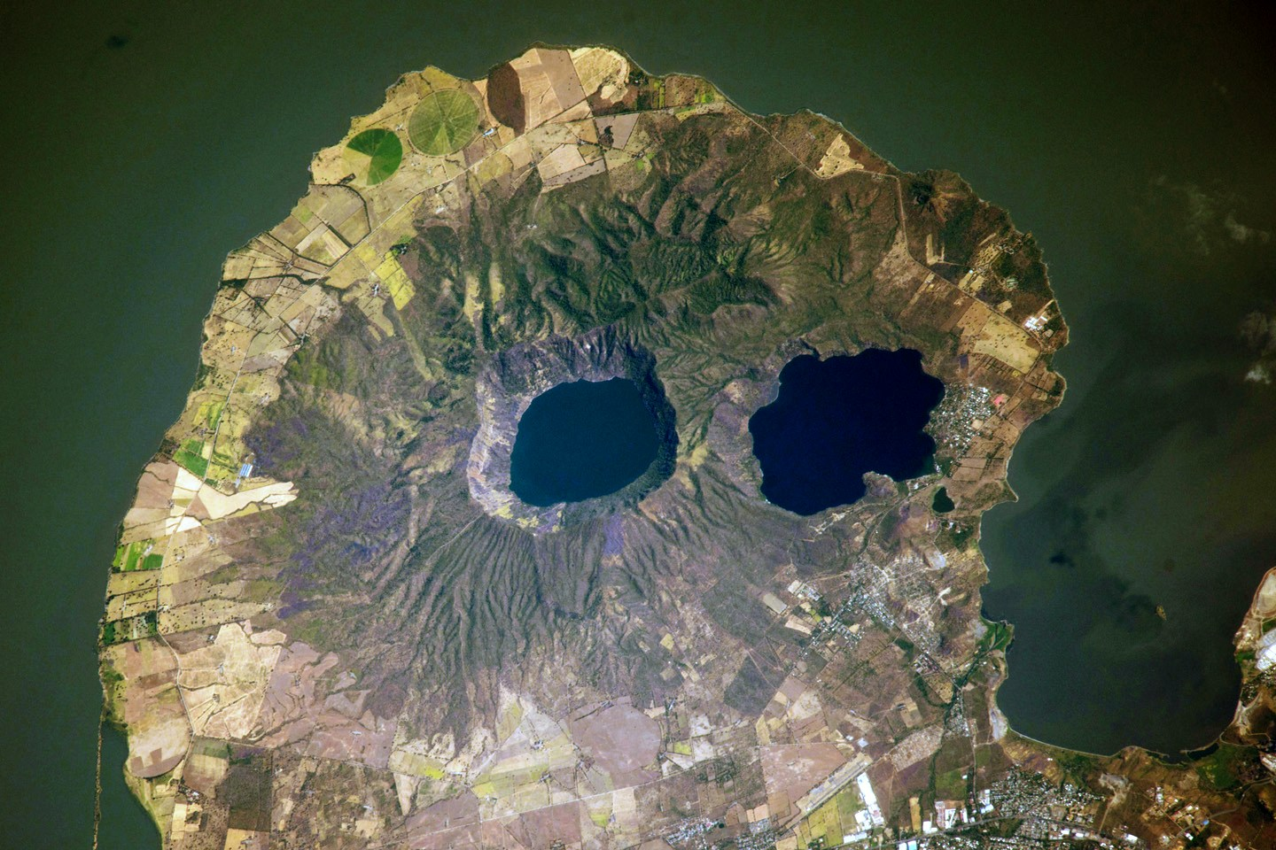 The Chiltepe Peninsula, highlighted in this photograph by an astronaut on the International Space Station, extends into Lake Managua in west-central Nicaragua. The peninsula was formed from part of a large ignimbrite shield, a geologic structure created when mostly low-density materials (such as pumice) are ejected during violent, explosive eruptions. Ignimbrite deposits are most commonly laid down during large pyroclastic flows, gravity-driven mixtures of rock, ash, and volcanic gases. Ignimbrite shields form through successive flows over geologic time. The Apoyeque caldera (center left)—which is filled with a 2.8 kilometer (1.7 mile) wide and 400 meter (1,300 foot) deep lake—dominates the center of the Chiltepe Peninsula. Geological evidence indicates that Apoyeque last erupted around 50 BCE (plus or minus 100 years). The Laguna Xiloa maar (center right)—a volcanic crater formed by the explosive interaction of magma and groundwater—is located to the southeast of Apoyeque and is also filled with a lake. (Note that north is to the left in this photo.) Laguna Xiloa last erupted approximately 6,100 years ago.